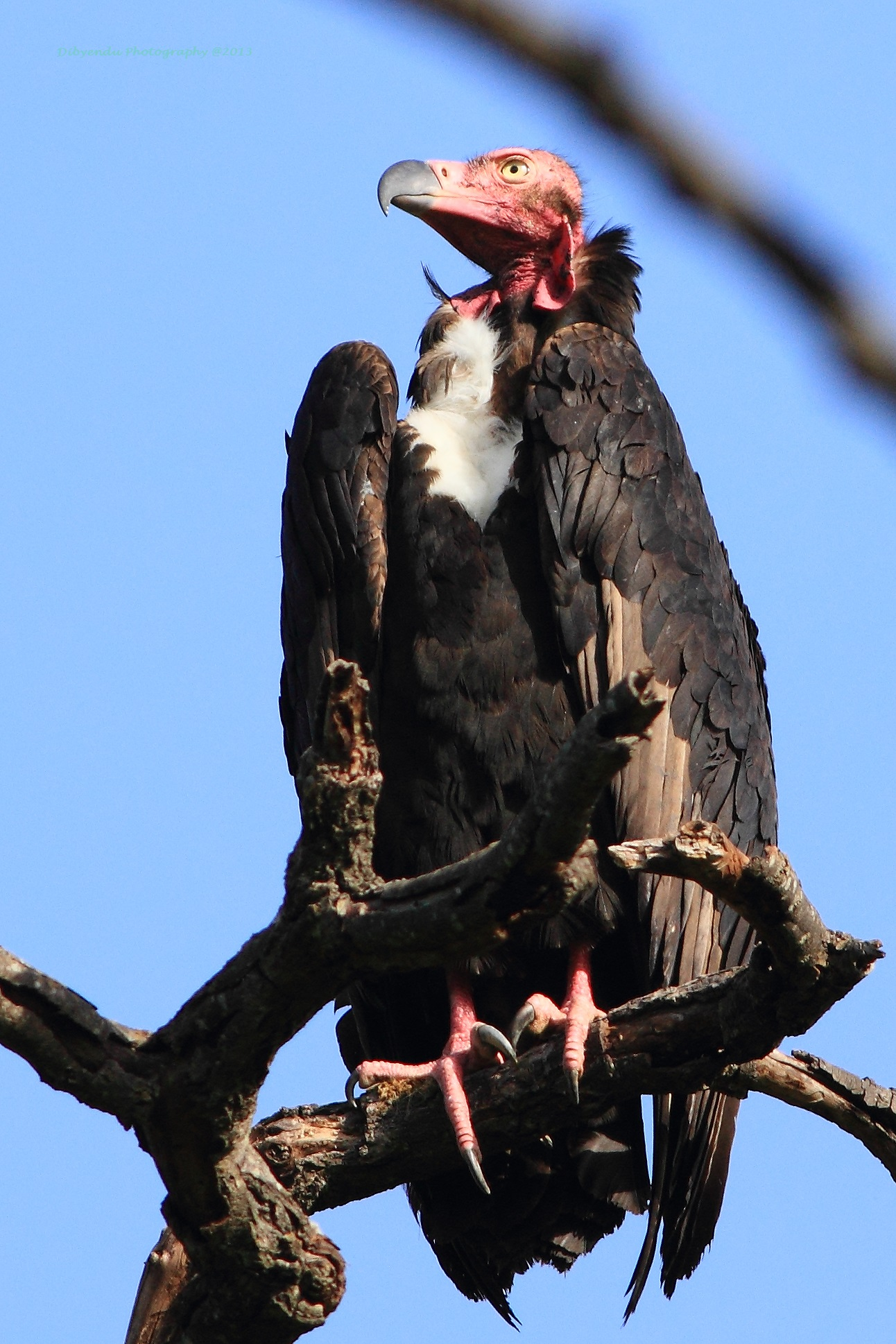 Red-headed Vulture, adult male. Photographed while having a safari in Bandhavgarh National Park